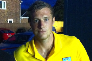 Photo of Elliot Parish taken by myself following the friendly game between Tamworth and Aston Villa on 4 August 2011 at The Lamb Ground in Tamworth.